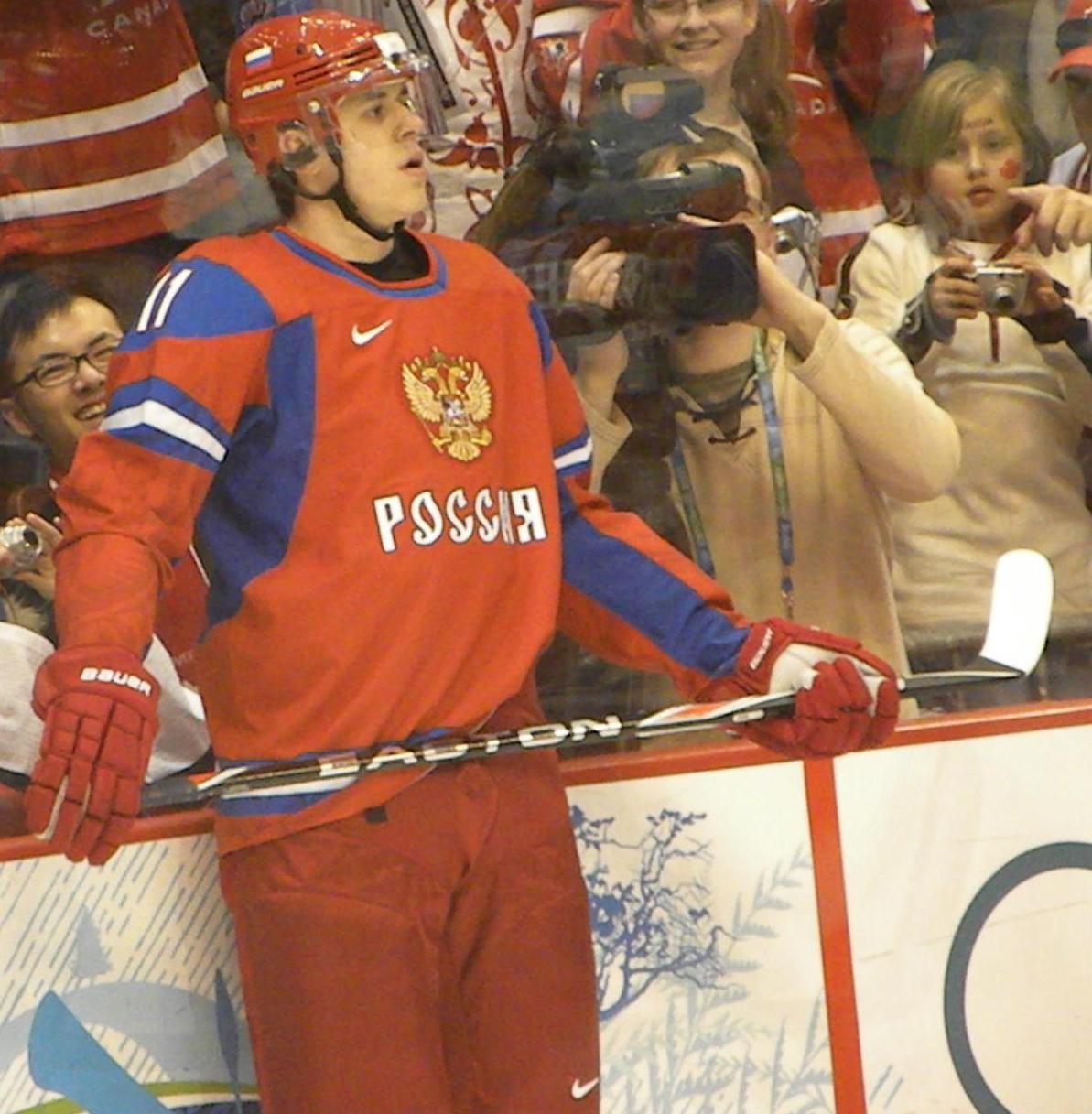 Evgeni Malkin of the Russia men's national ice hockey team, warming up before a match against the Latvia men's national ice hockey team in the 2010 Winter Olympics at Canada Hockey Place on February 16, 2010.